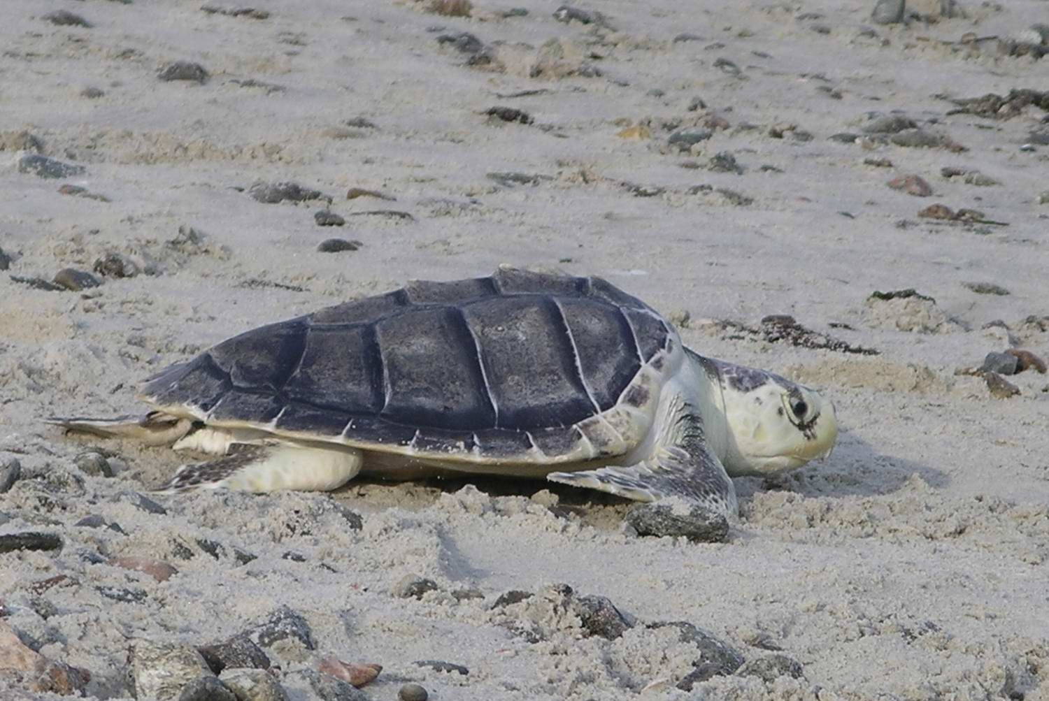 This turtle is on his way home after being released from a cold-stun rehab center. CREDIT: NER Sea Turtle Stranding Network